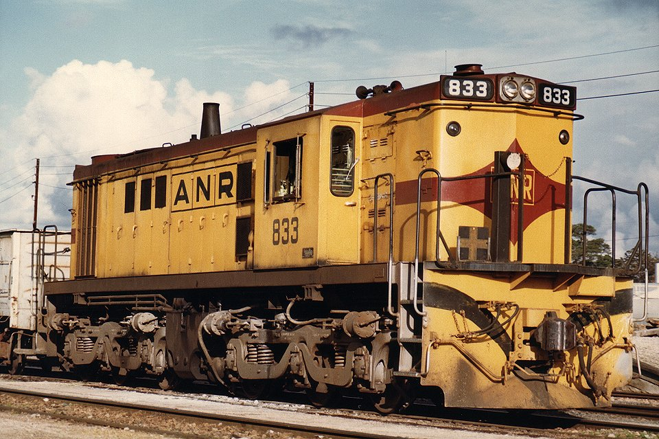 830 class, 833, shunting old Mt Gambier rail yard (South Australia), July 1983.